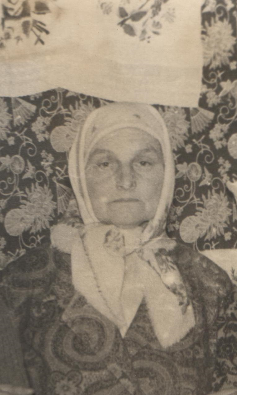 Шейновська Наталка 1919 р.н.